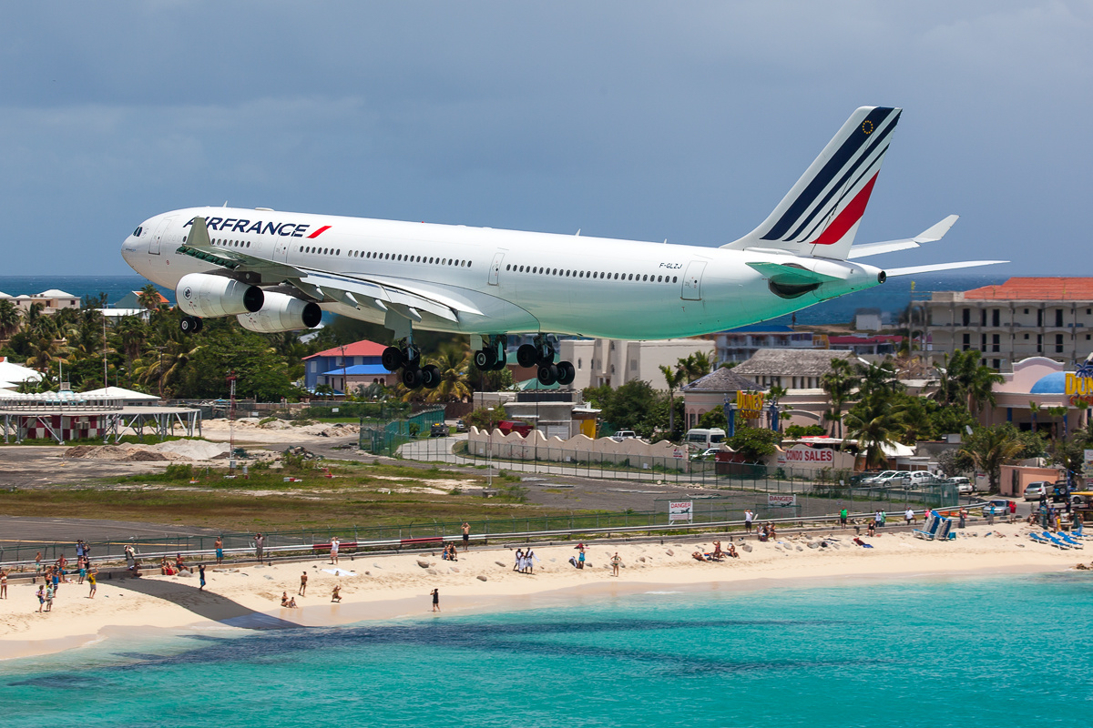 Air France Airbus A340-200 (F-GLZJ) on short finals at Princess Juliana Airport